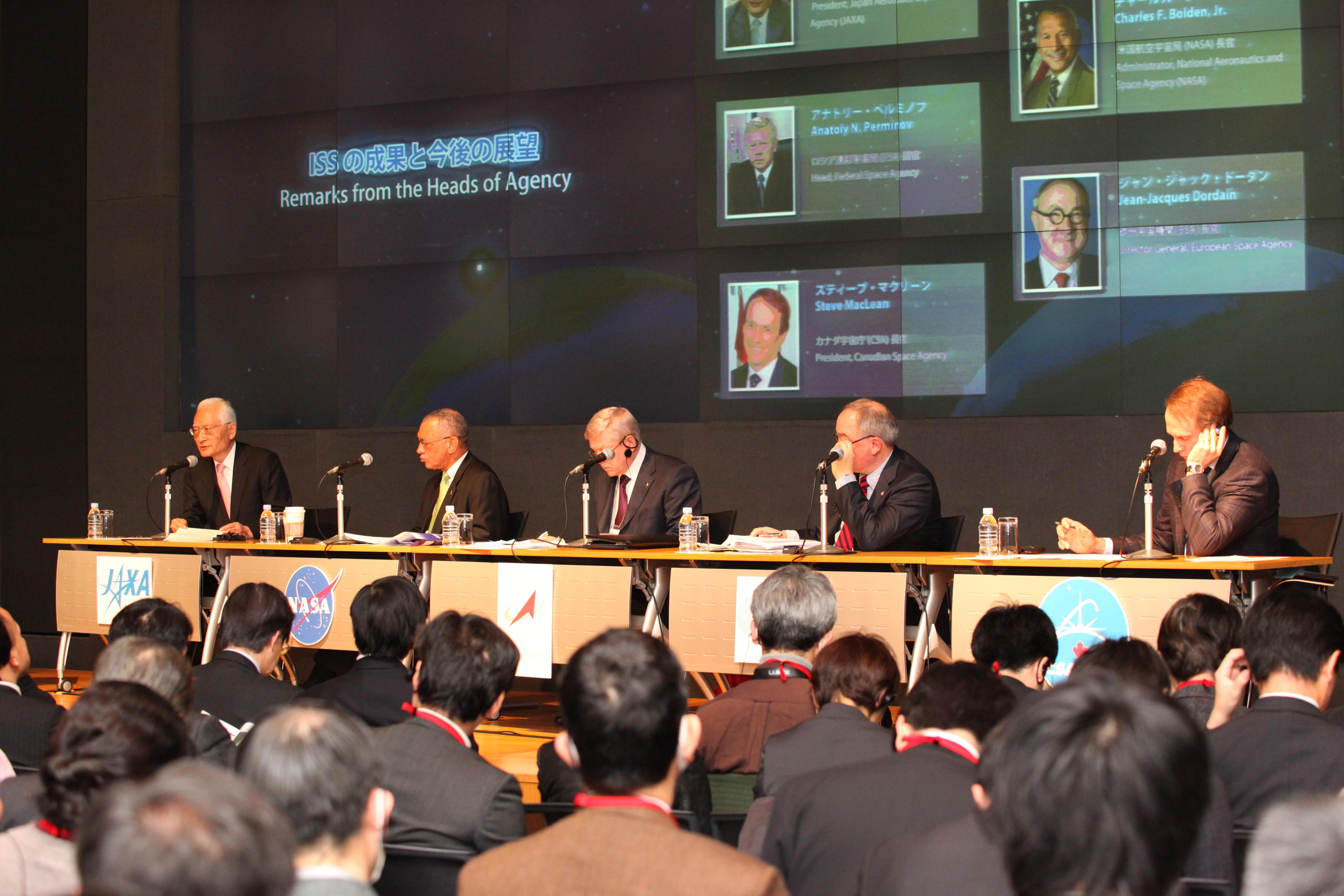 The heads of the International Space Station (ISS) agencies from Canada, Europe, Japan, Russia and the United States met in Tokyo, Japan to review ISS cooperation. From the left are Dr. Keiji Tachikawa, President of the Japanese Aerospace Exploration Agency, Charles Bolden, NASA Administrator; Anatoly N. Permirov, Head of the Russian Space Agency; Jean-Jacques Dordain, Director General of the European Space Agency; and, Dr. Steve MacLean, President of the Canadian Space Agency.